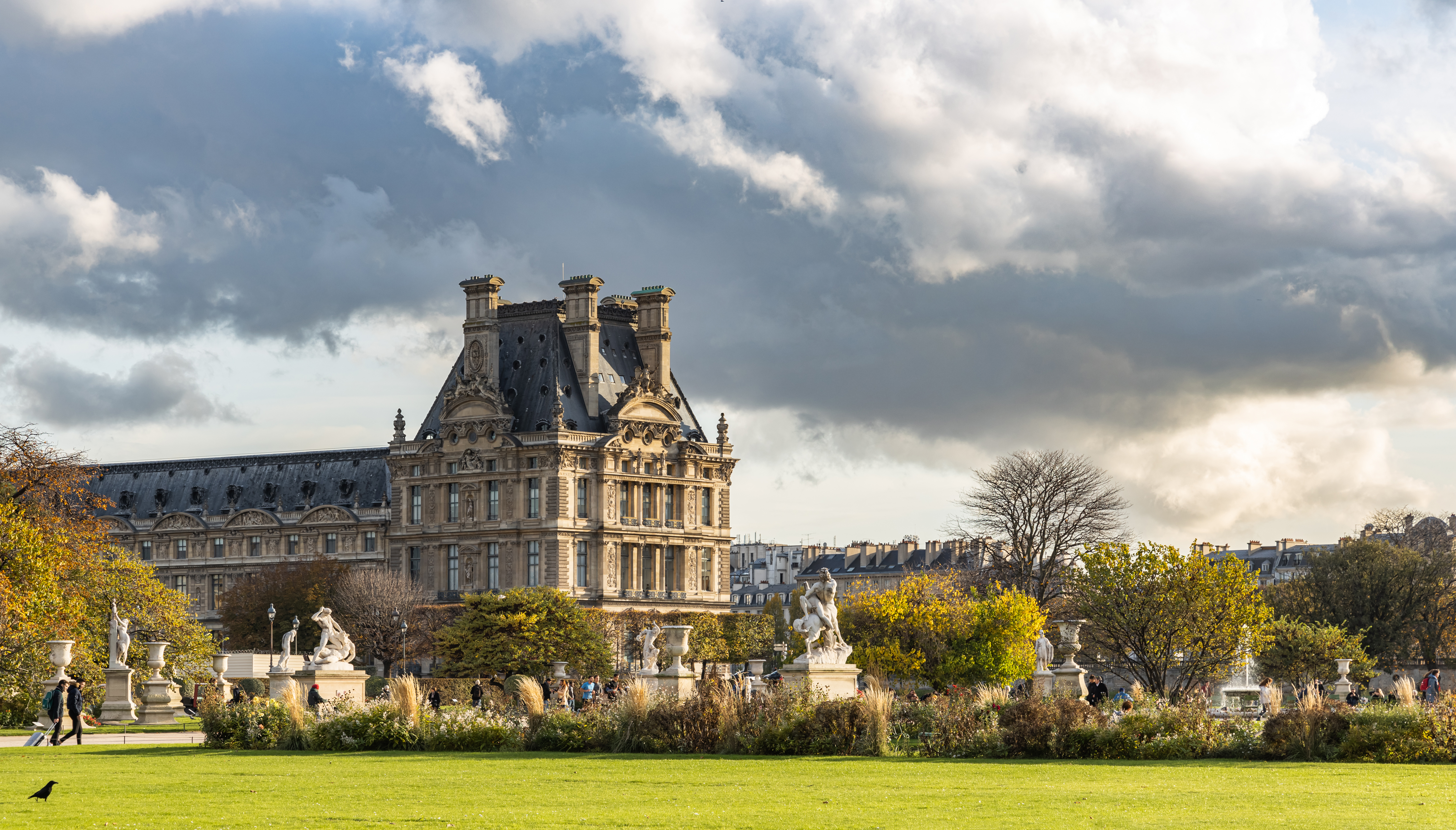 Pavillon de Flore as seen from the Tuileries Garden, Paris.